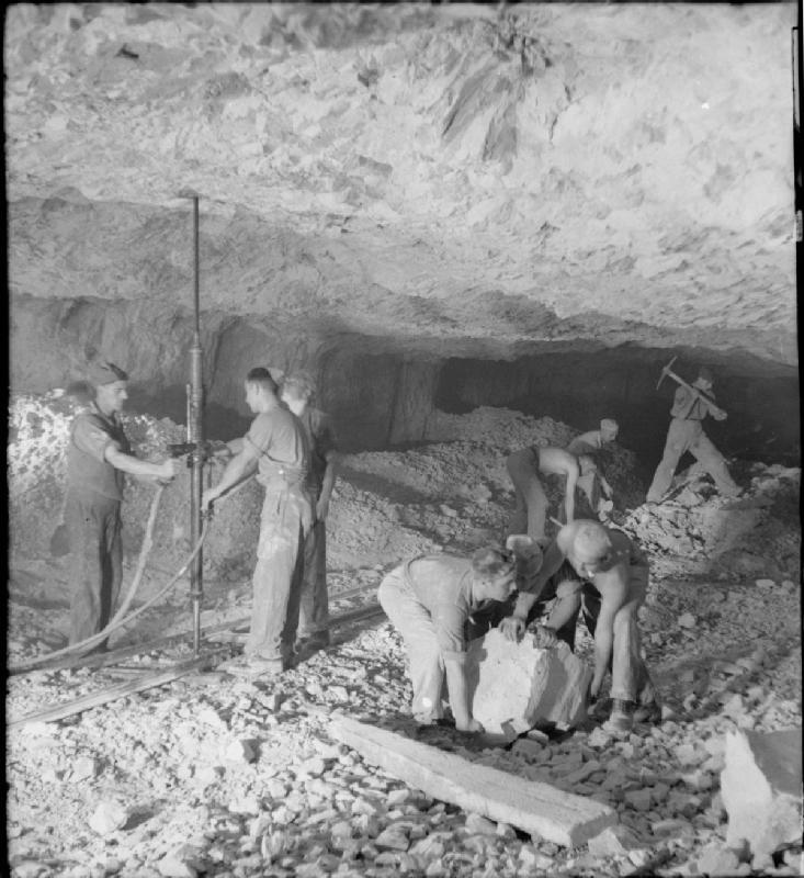 Royal Engineer tunnellers using a water pressure drill to clear solid rock while creating the maze of tunnels that can be found through the Rock of Gibraltar, 1 November 1941.